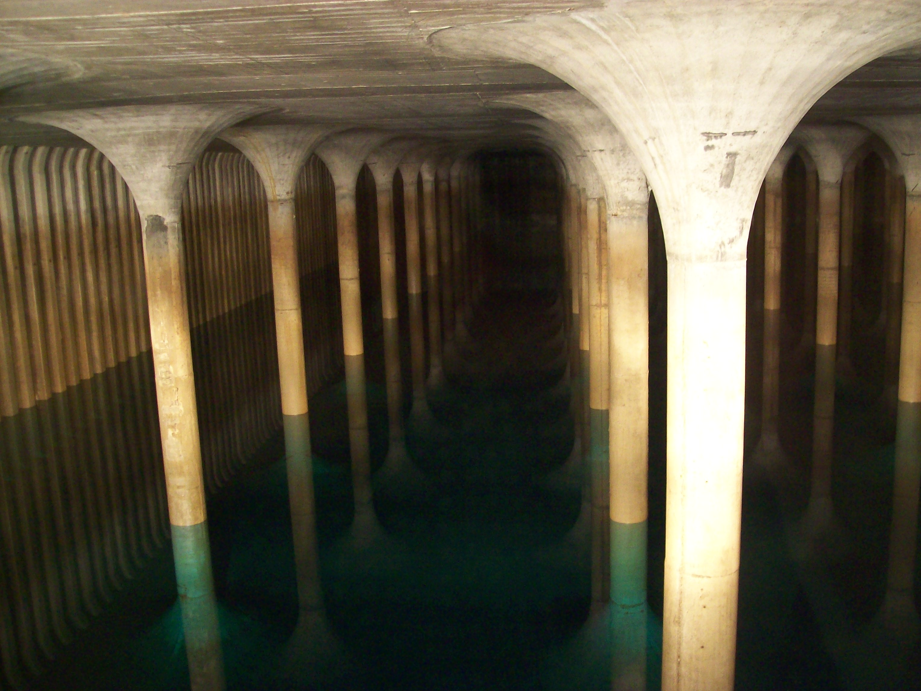 Indoor space of the drinking water reservoir in Budapest, Gellért Hill